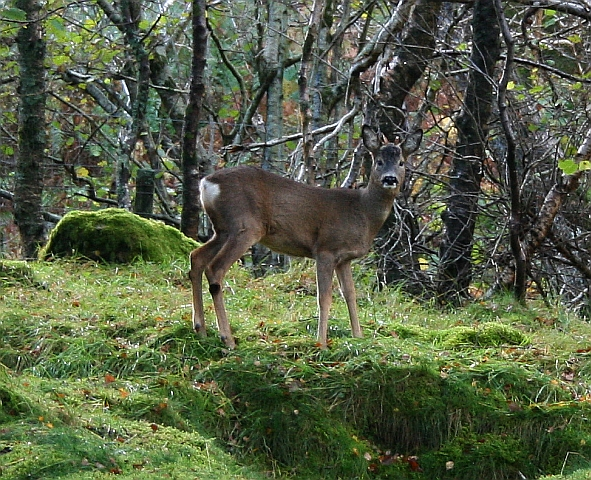 Deer in Guerness Wood Spotted from the car whilst on my way home.